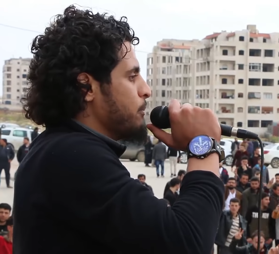 Syrian rebel leader Abdul Baset al-Sarout rallies demonstrators at the University of Idlib.